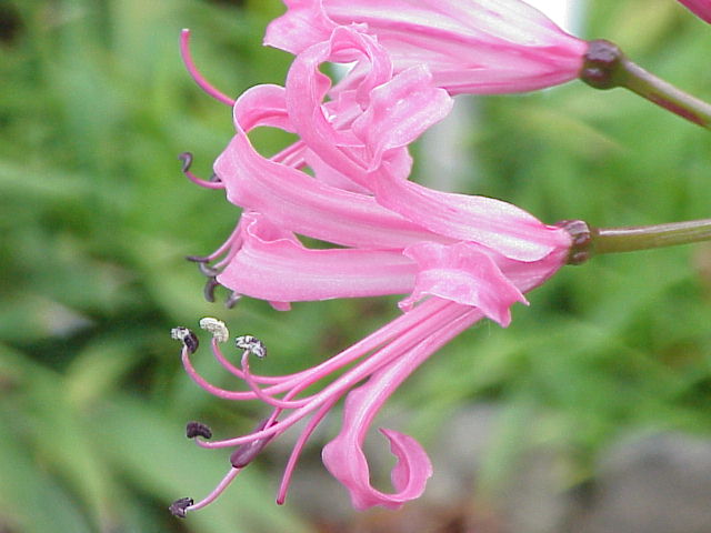 Species: Nerine bowdenii Family: Amaryllidaceae Image No. 1